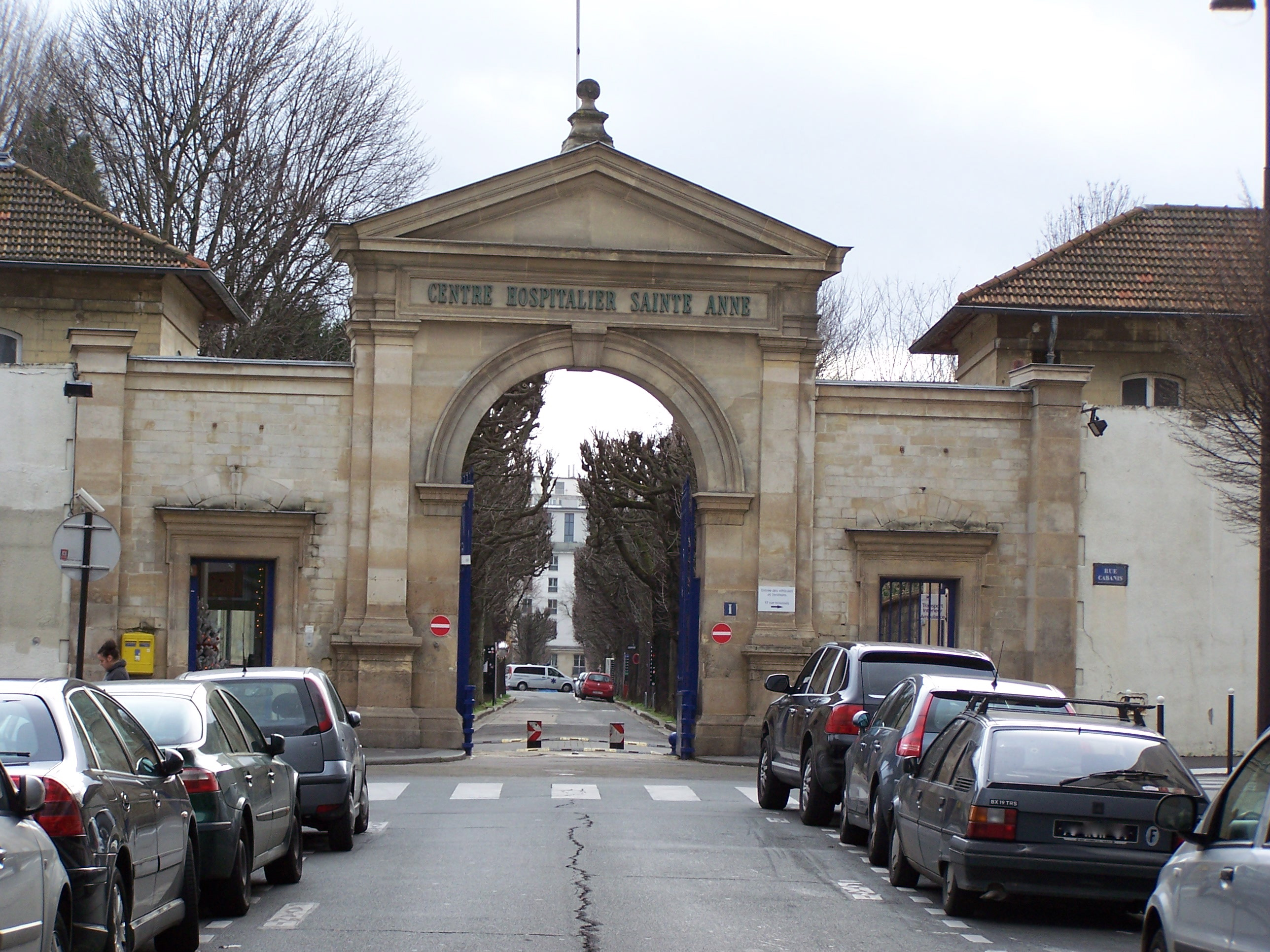 Entrance of the hospital Saint-Anne, rue Cabanis in Paris, from rue Ferrus